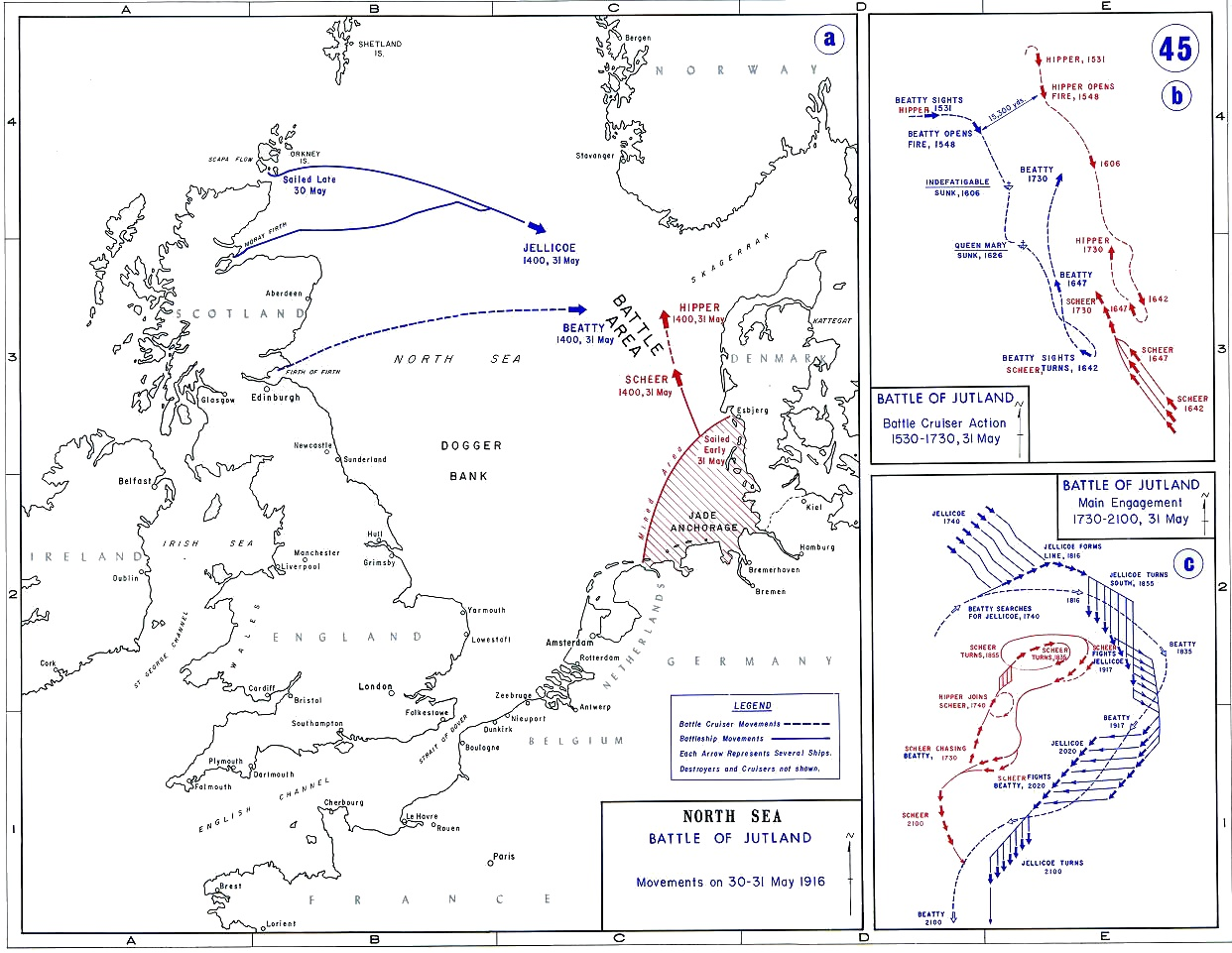 Map showing the movements of the British and German fleets during the Battle of Jutland in May 1916